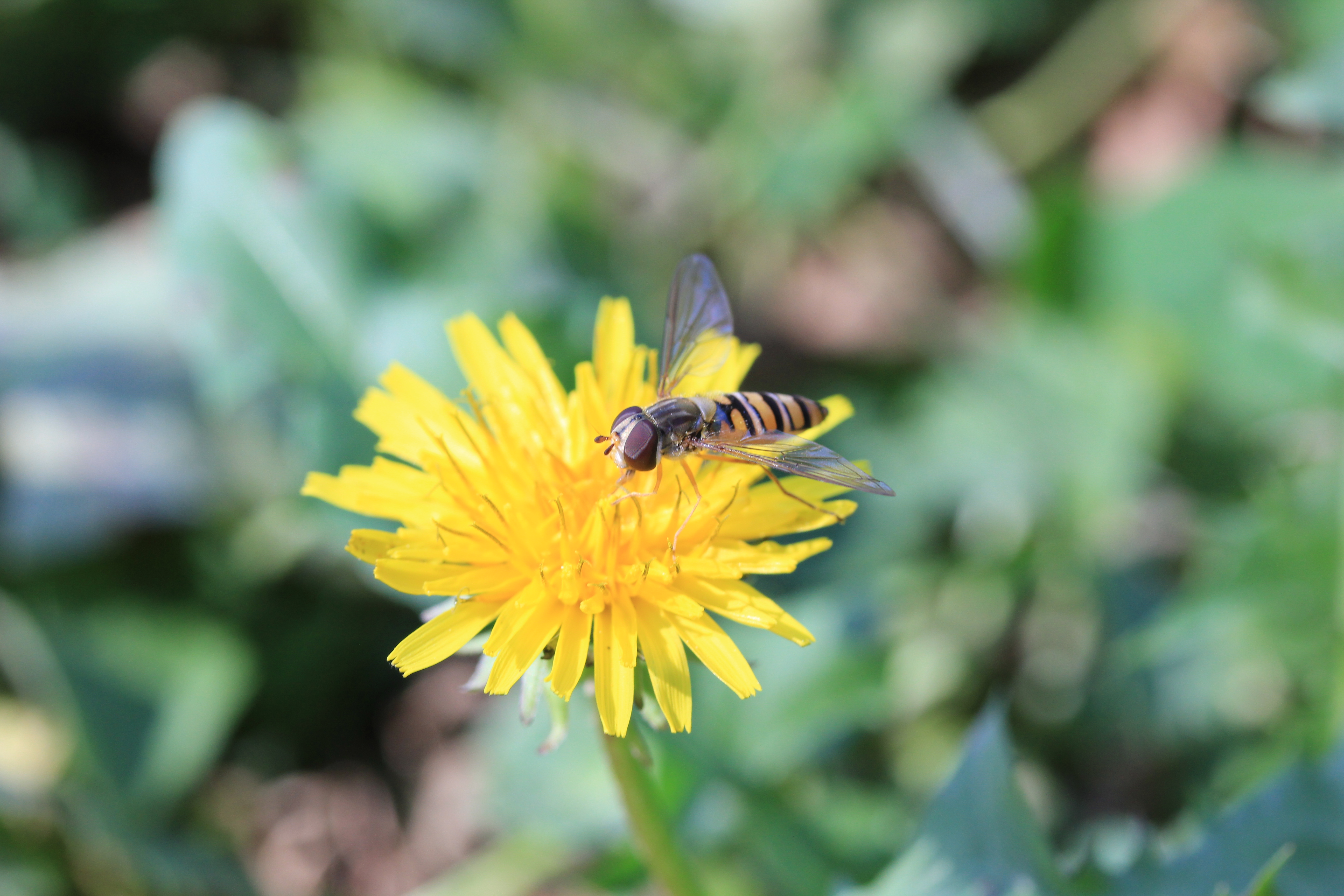 Episyrphus balteatus on Taraxacum japonicum